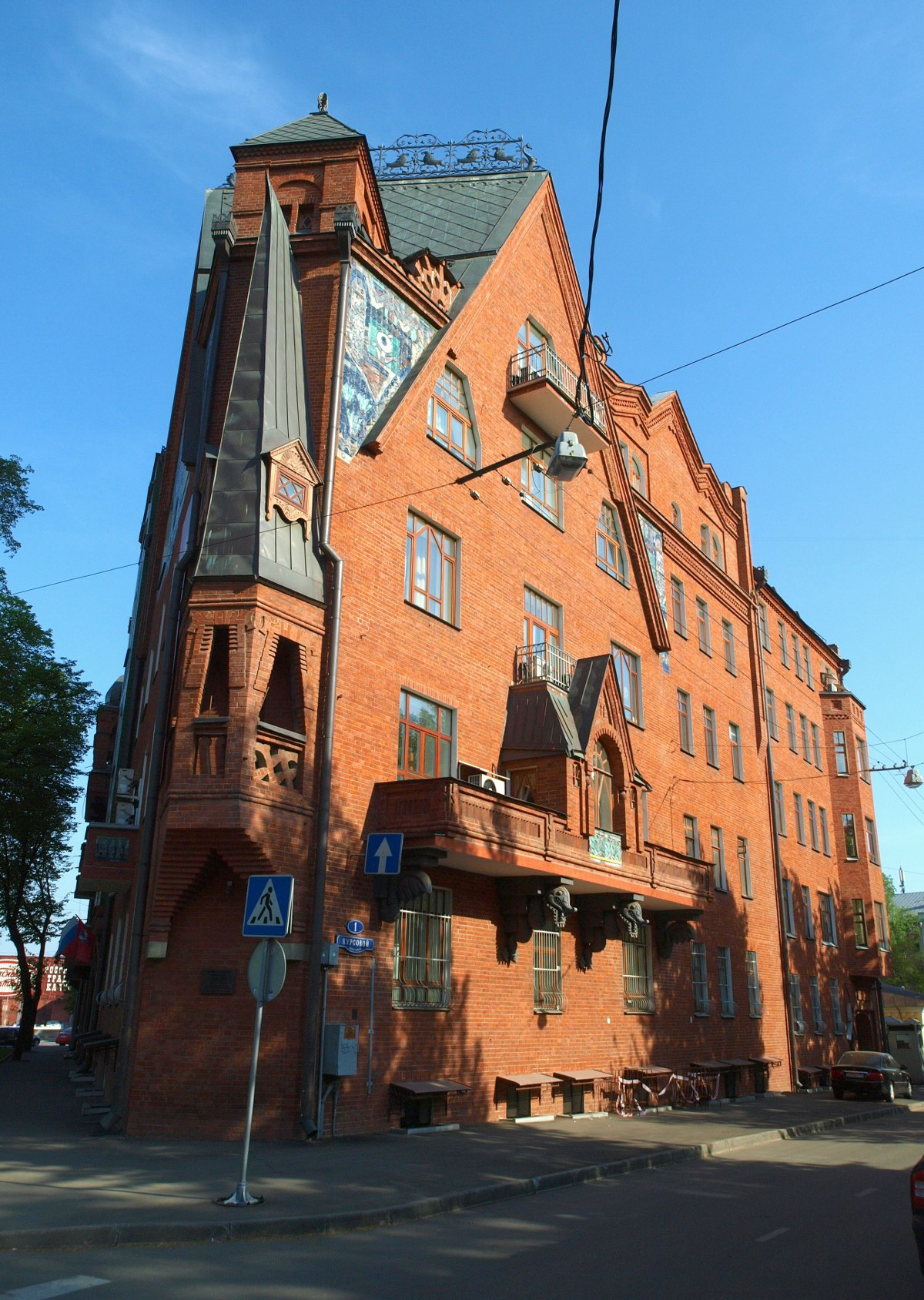 Pertsova House. Moscow, corner of Prechistenskaya Embankment, Soymonovsky Lane and Kursovoy Lane. View from Soymonovsky Lane. Built in 1905-1907. Architects: Nikolay Zhukov (planning) and Boris Schnaubert (execution); artistic concept: Sergey Malyutin.